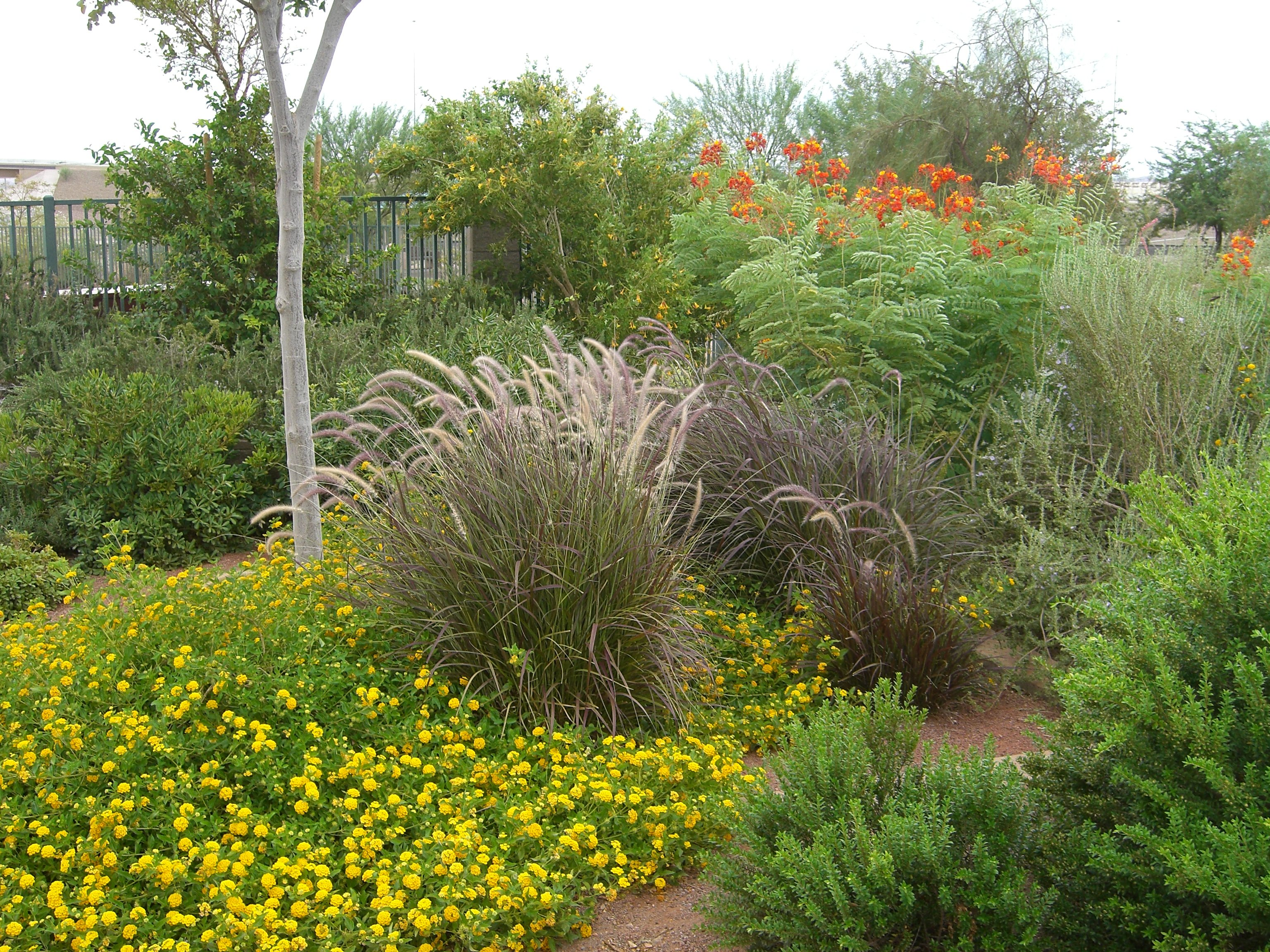 A picture of some flowers and other plants in the Acacia Demonstration Gardens in Henderson, Nevada.